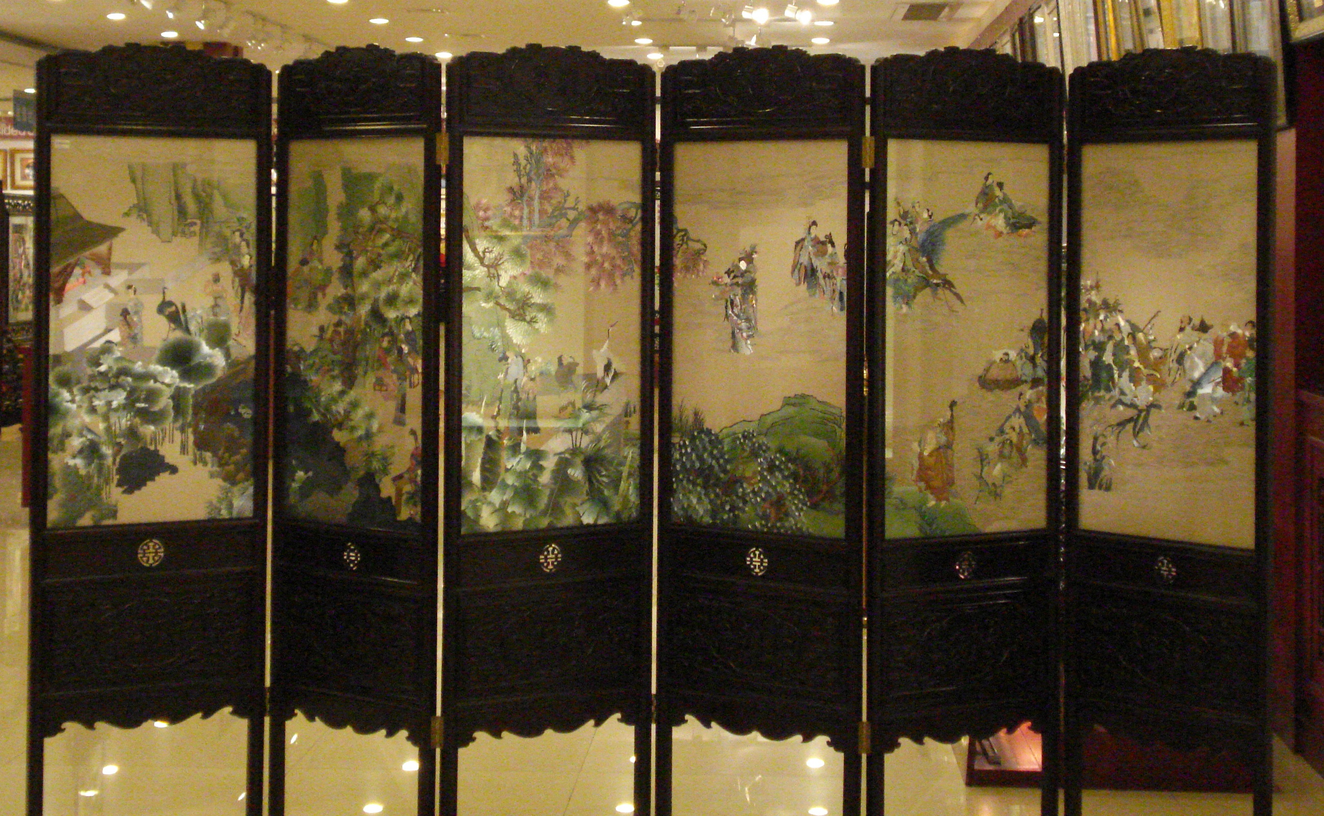 Suzhou, silk embroidery manufacture - silk paravent (screen)